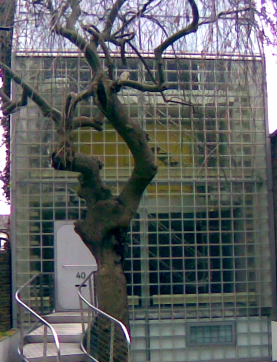 The Hauer-King house on Douglas Road, Canonbury, in London, England, UK, designed by Jan Kaplický's architectural practice Future Systems and completed in 1994. It won the First Prize of the Aluminium Imagination Award (1995), a Geoffrey Gribble Memorial Conservation Award (1995) and a Civic Trust Award (1996).